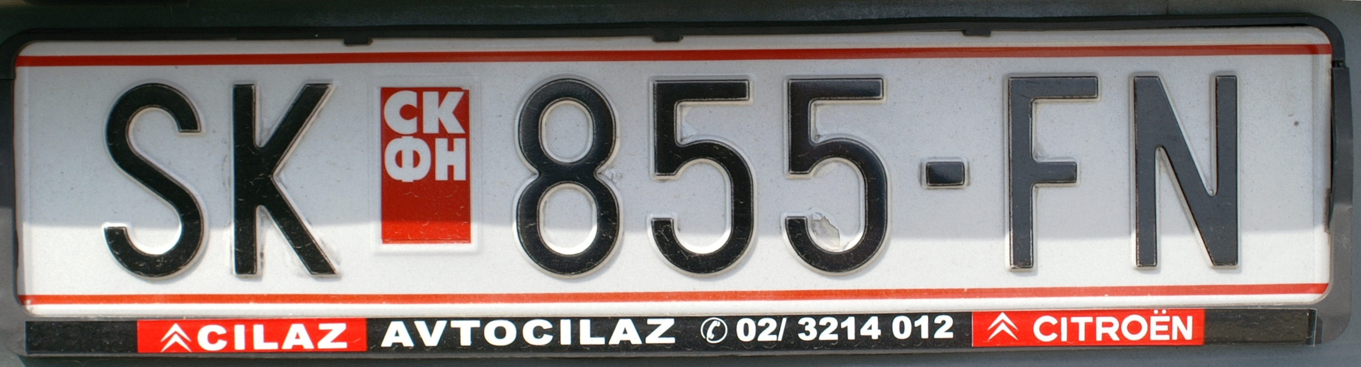 licenseplate of the Republic of Macedonia